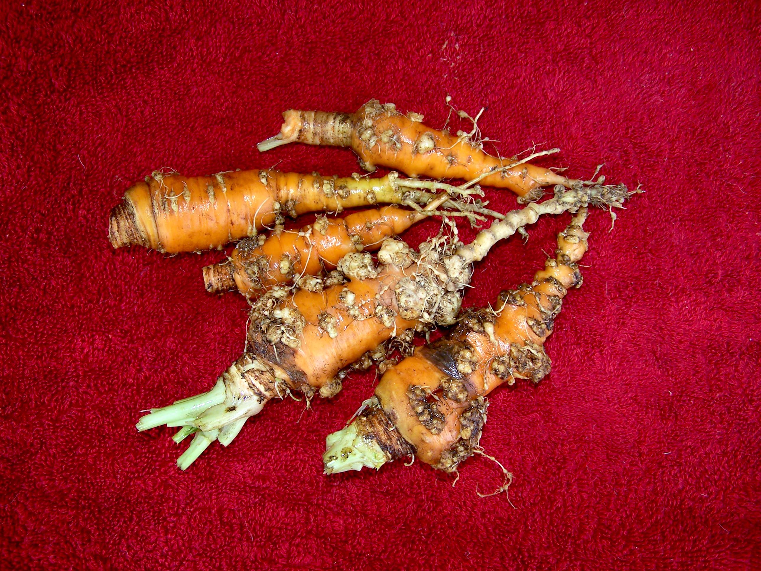 Meloidogyne sp. on Daucus carota